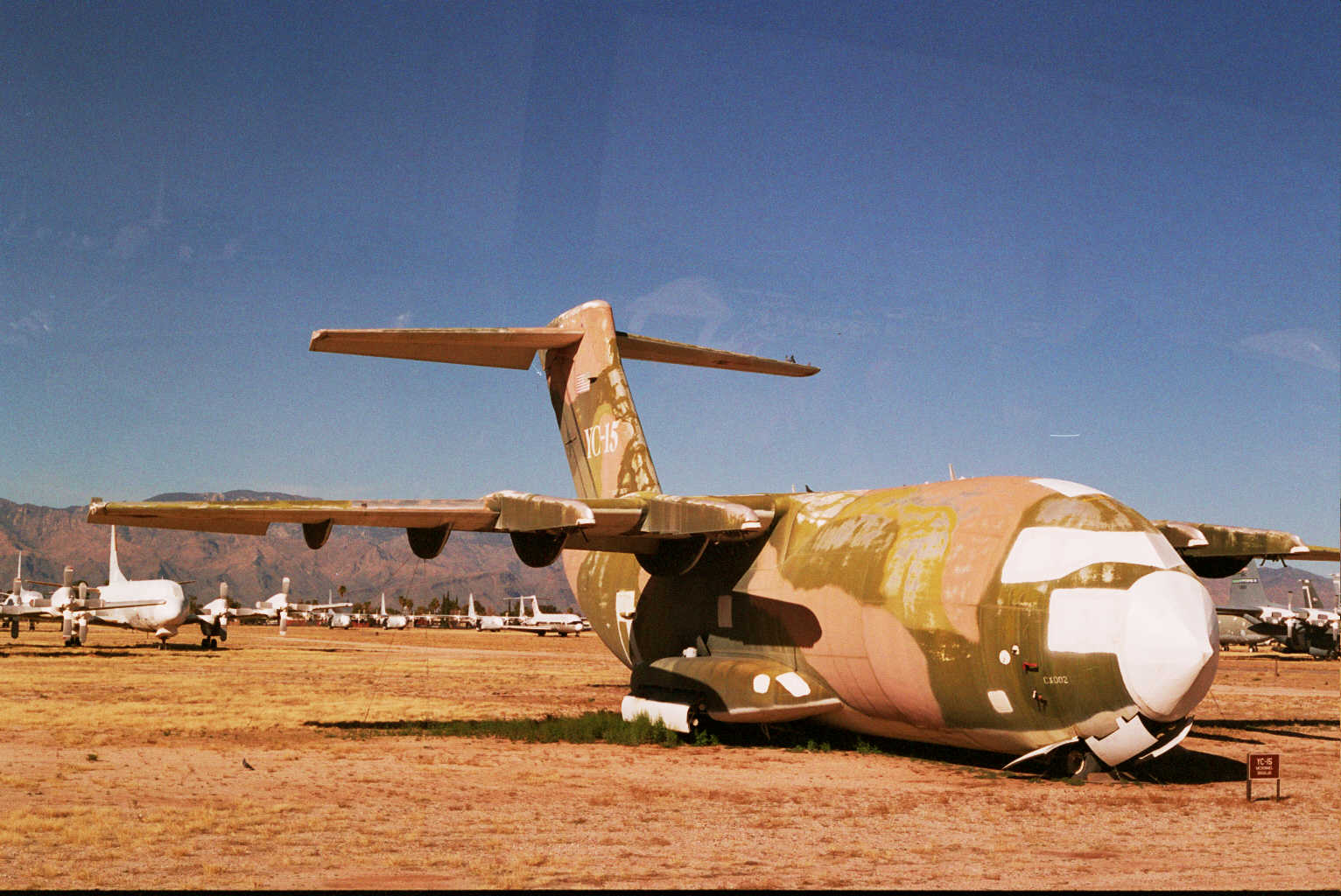 AMARG, Tucson - Davis-Monthan AFB (DMA / KDMA) USA - Arizona, February 17 2007.